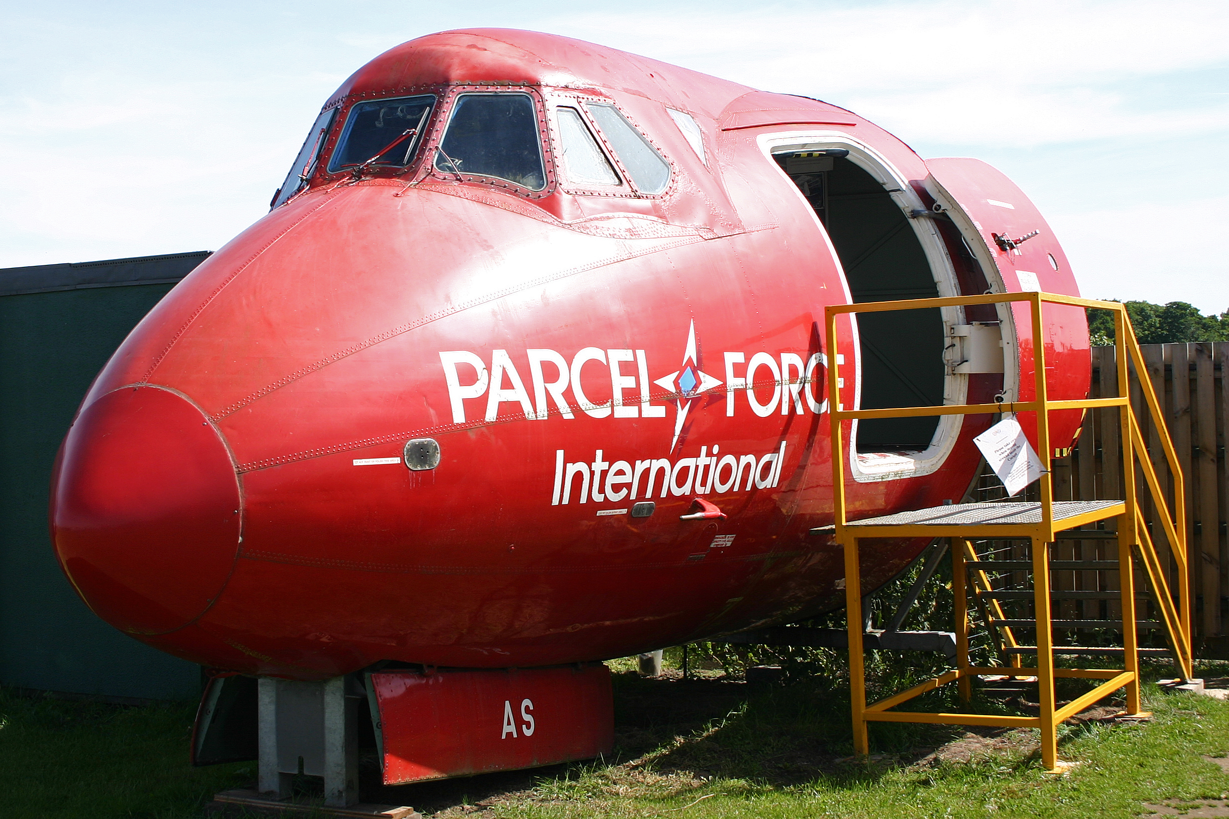 Nose. Walk-in exhibit. ParcelForce colour scheme. msn 263. Bournemouth Air Museum. 14-6-2011